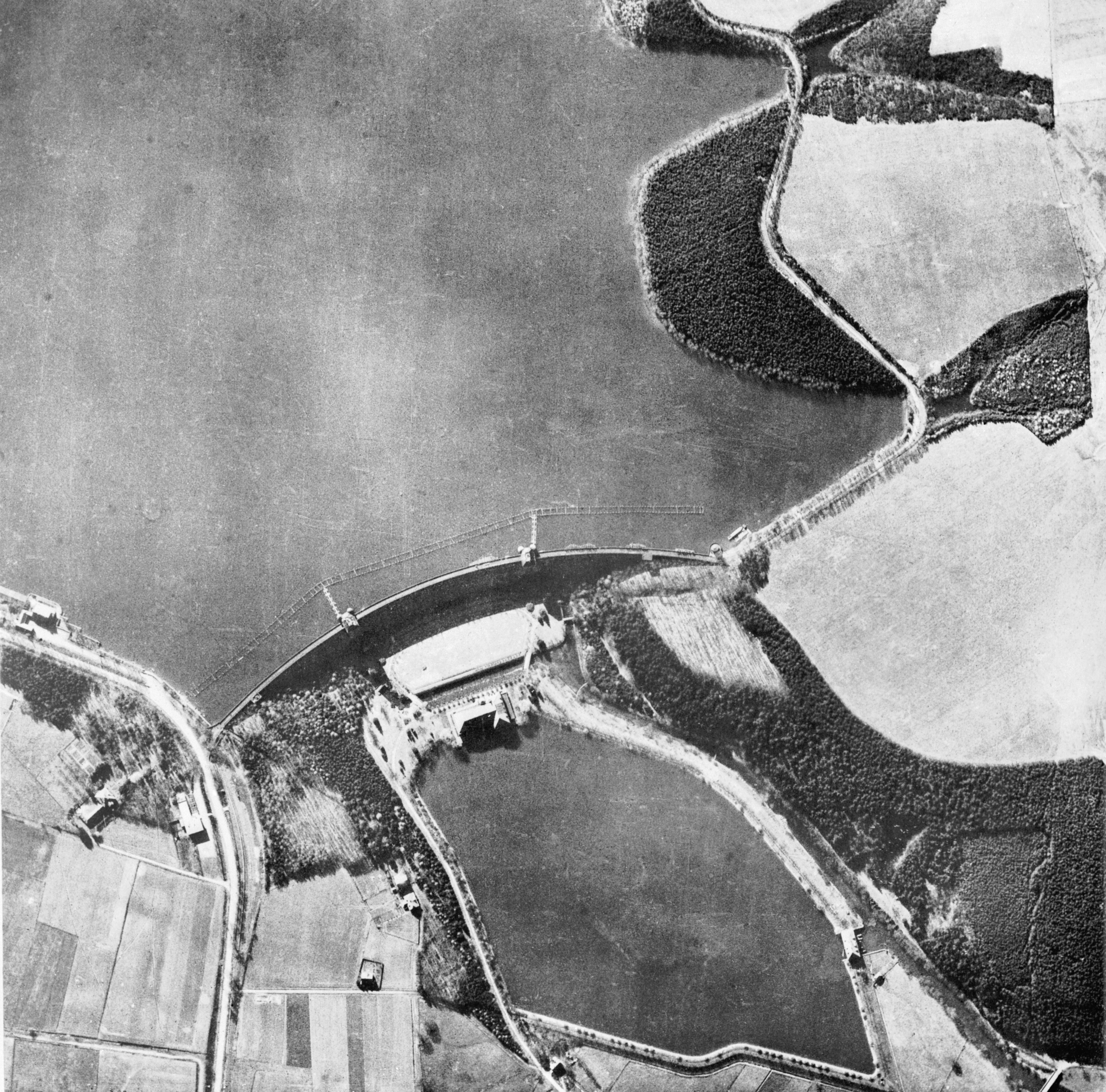 Operation Chastise (the Dambusters' Raid) 16 - 17 May 1943 The targets: An aerial (oblique) reconnaissance photo of the Moehne Dam before the raid. The Moehne and Sorpe Dams supplied 75% of the water supplies for the Ruhr Valley industrial complex.